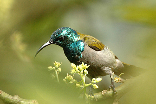 Green-headed Sunbird (Nectarinia verticalis) in Uganda